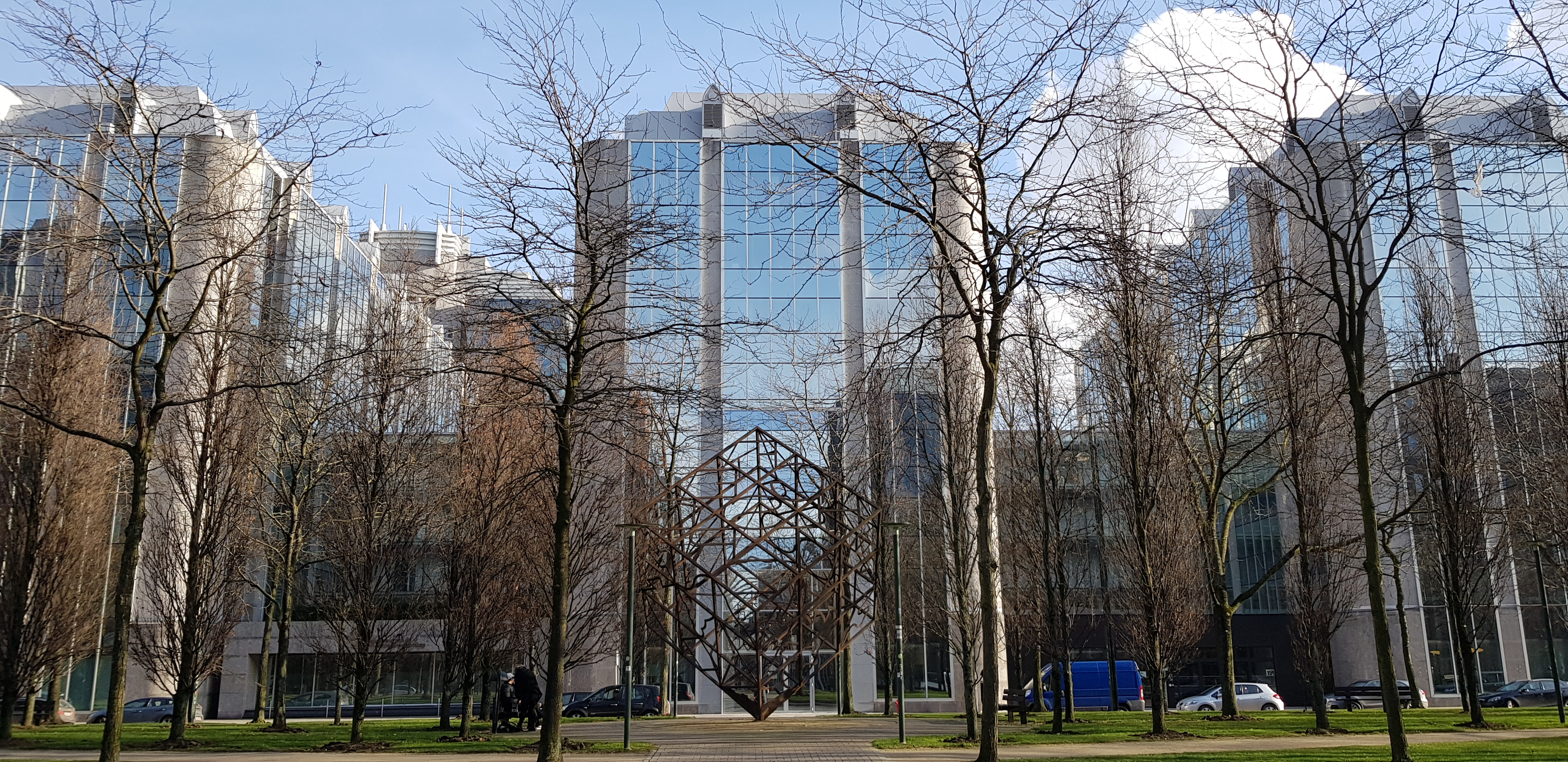 Hendrik Conscience building, Saint-Josse-ten-Noode, Belgium